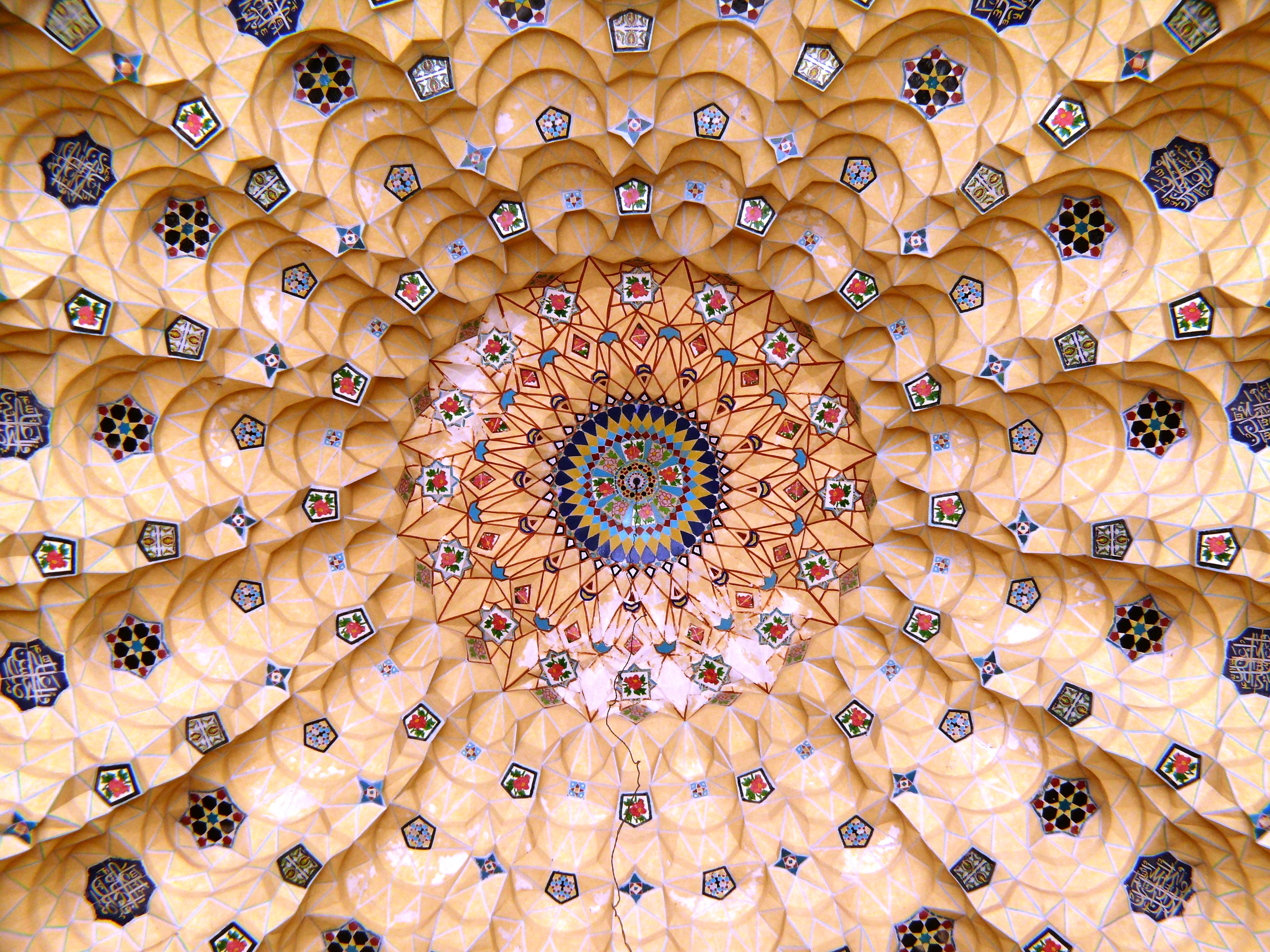 Iranian architecture. The ceiling of a vault at the Shah Cheragh shrine at Shiraz, Fars province, Iran.